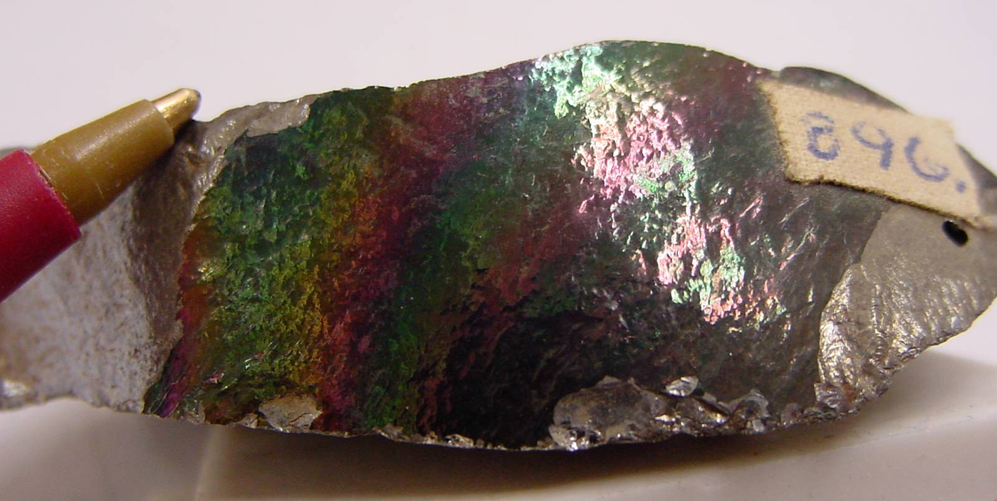 Spiegeleisen type of Ferromanganese. No locality given. Mineral collection of Bringham Young University Department of Geology, Provo, Utah. Photograph by Andrew Silver. No BYU index.